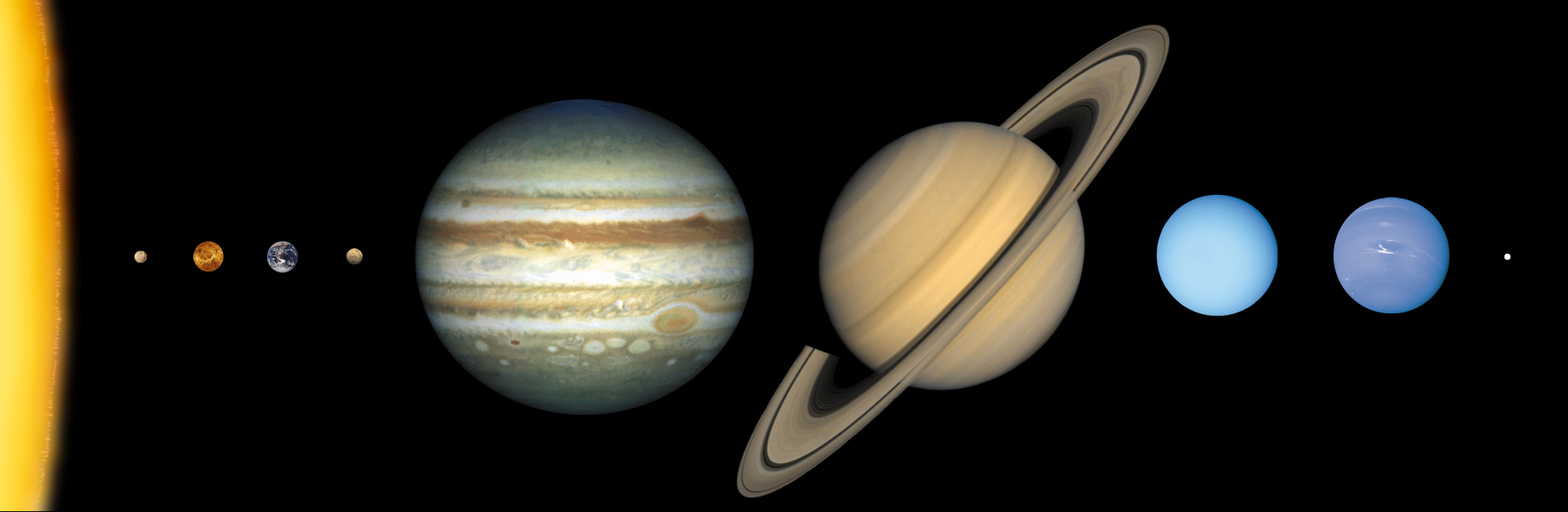 This illustration shows the approximate sizes of the planets relative to each other. Outward from the Sun, the planets are Mercury, Venus, Earth, Mars, Jupiter, Saturn, Uranus, Neptune, and Pluto. Jupiter's diameter is about 11 times that of the Earth's and the Sun's diameter is about 10 times Jupiter's. Pluto's diameter is slightly less than one-fifth of Earth's. The planets are not shown at the appropriate distance from the Sun.